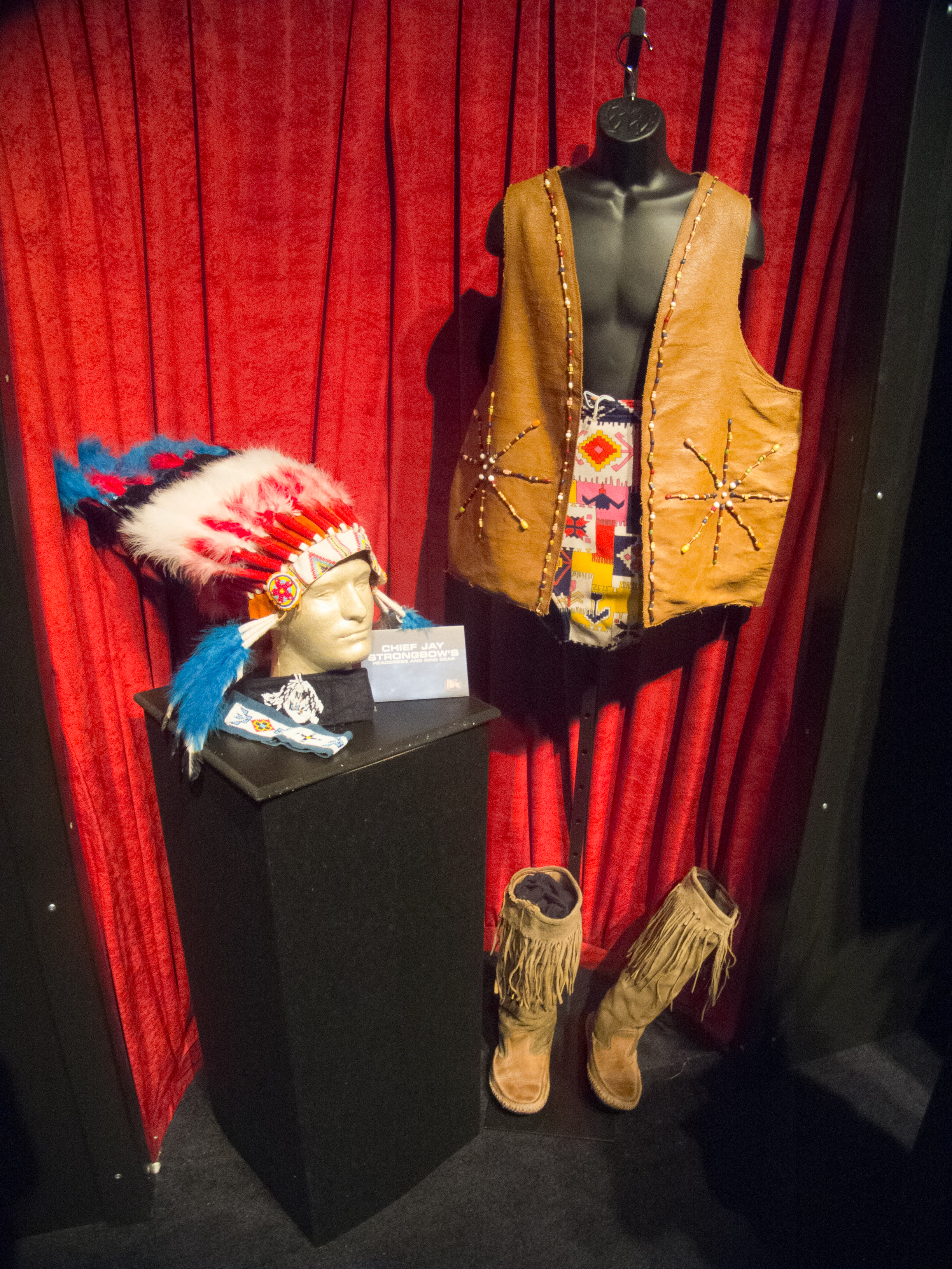 WWE Fan Axxess - Classic Memorabilia/Ring Gear